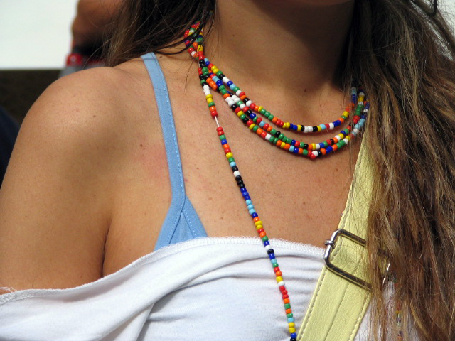 A young woman wearing a colorful bead necklace.